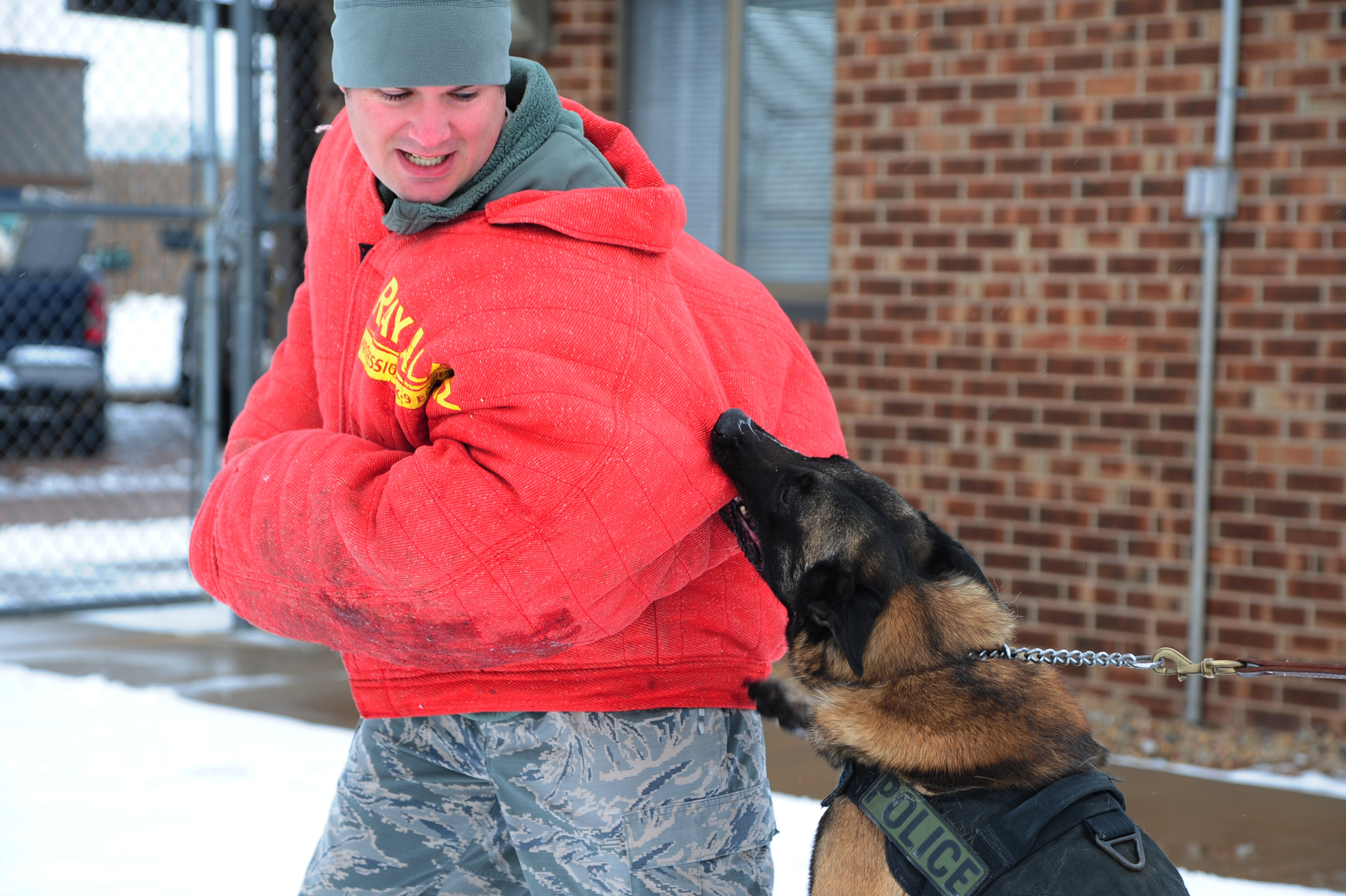 Zeus, 97th Security Forces Squadron military working dog, bites U.S. Air Force Staff Sgt. Ryan Pevey, 97th kennel master, during bite work training Nov. 25, 2013. Military working dogs are trained to bite and hold onto the suspect until their handler gives the command to release. (U.S. Air Force photo by Senior Airman Lausanne Genuino/Released)